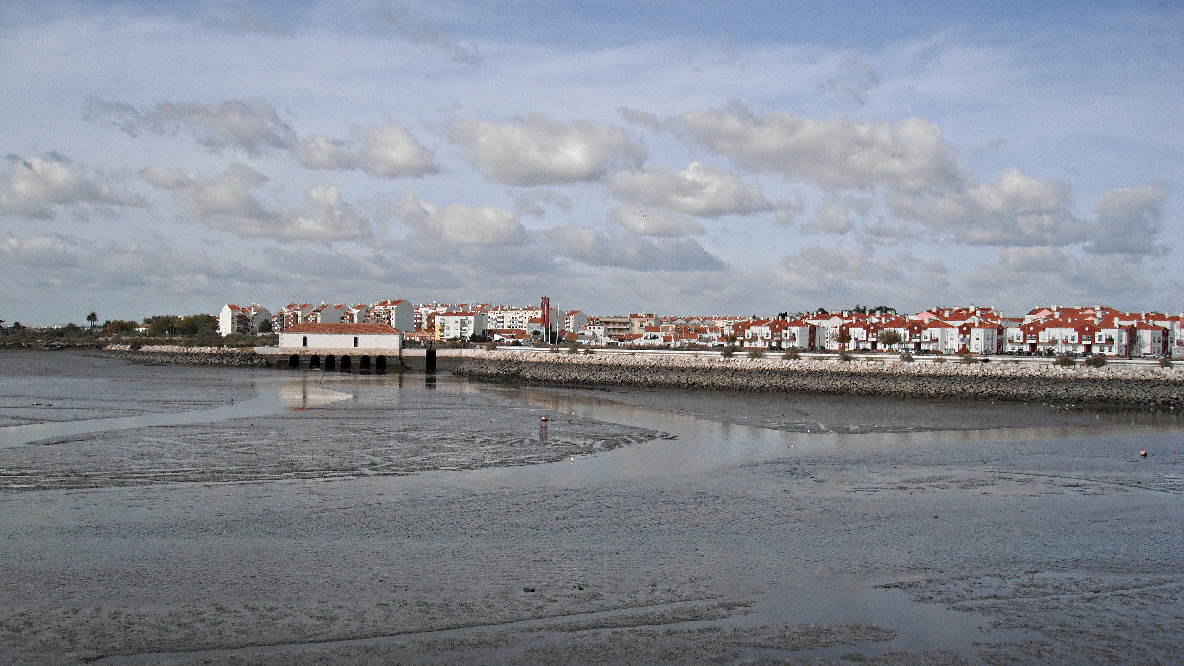 Montijo - Panorama